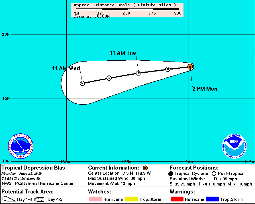 Tropical Storm Blas (2010) (Designation 03E) 5-day forecast map.